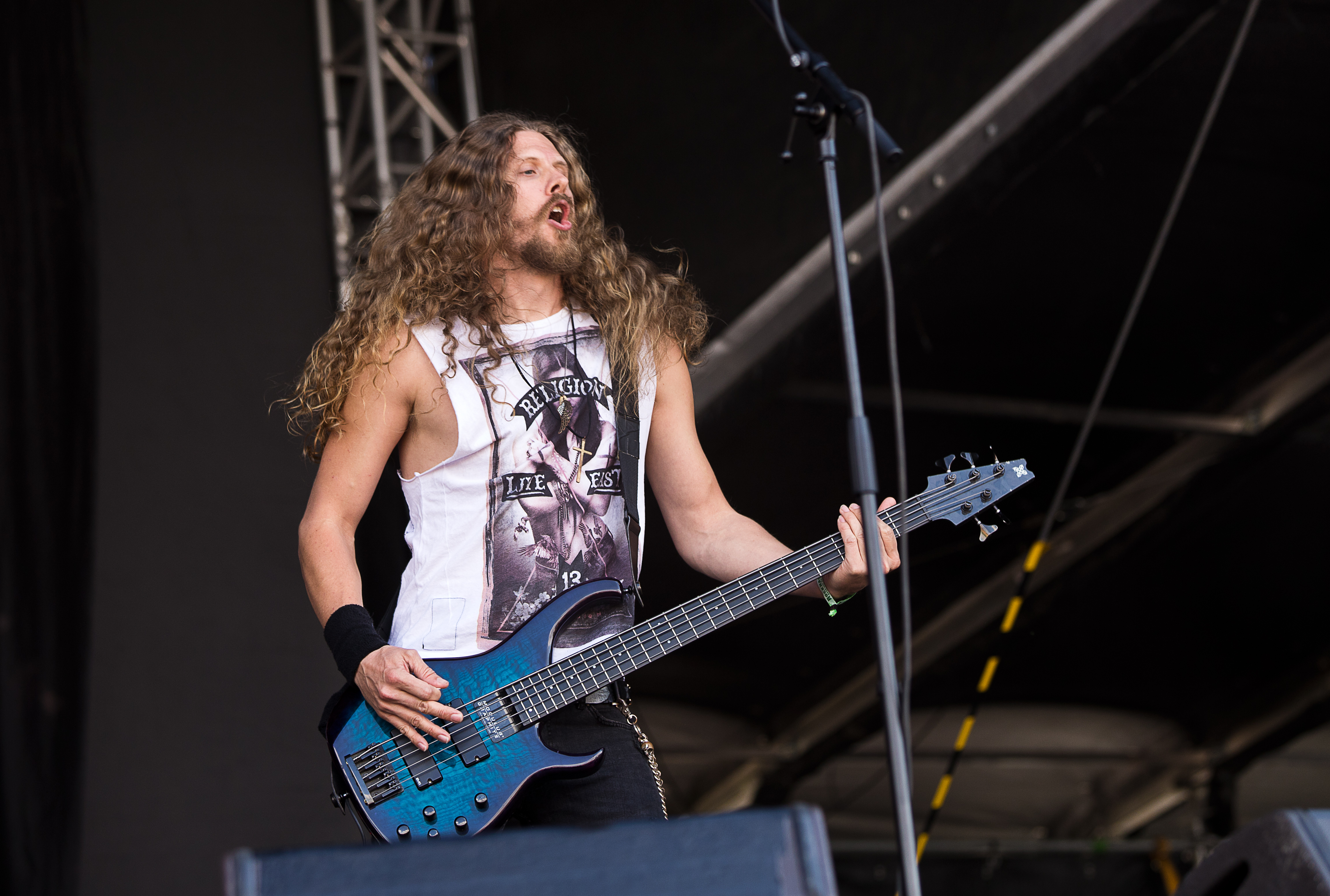 The Dutch symphonic metal band Delain at the Rockharz Open Air 2015 in Ballenstedt/Germany.